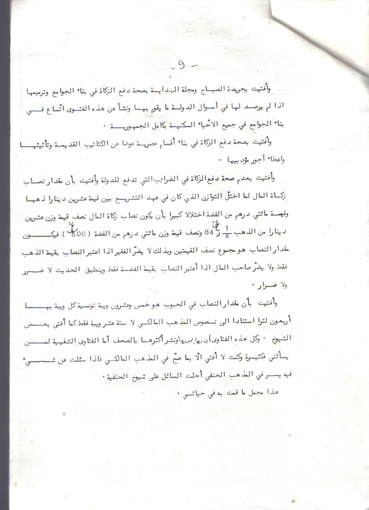 السيرة الذاتية للشيخ الطيب التليلي، ص 9